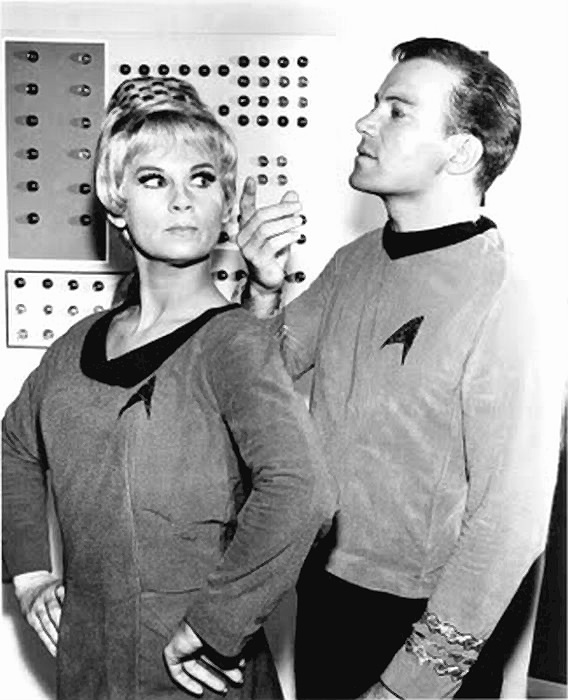 Photo of Grace Lee Whitney as Janice Rand and William Shatner as Captain Kirk from the Star Trek episode "The Corbomite Manuever". This was the character Janice Rand's first appearance on the program. The item has no copyright markings on it as can be seen in the links above.